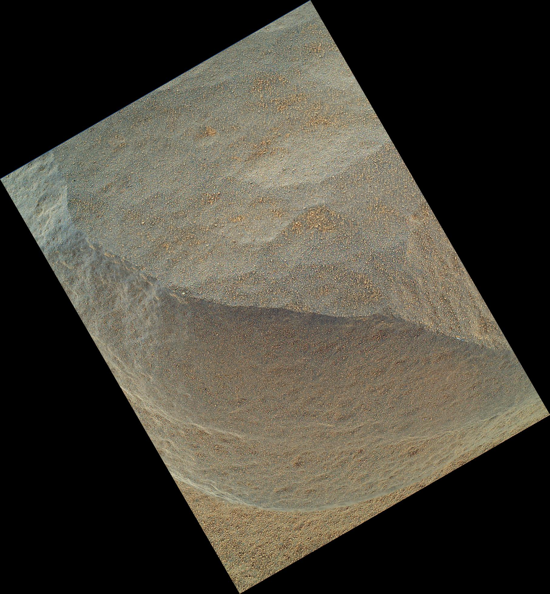 10.01.2012 'Bathurst Inlet' Rock on Curiosity's Sol 54, Close-Up View This is the highest-resolution view that the Mars Hand Lens Imager (MAHLI) on NASA's Mars rover Curiosity acquired of the top of a rock called "Bathurst Inlet." The rover's arm held the camera with the lens only about 1.6 inches (4 centimeters) from the rock. The view covers an area roughly 1.3 inches by 1 inch (3.3 centimeters by 2.5 centimeters). At this distance, the camera provides resolution of 21 microns per pixel. For comparison, the typical resolution in images from the Microscopic Imager cameras on earlier-generation Mars rovers Spirit and Opportunity is about 31 microns per pixel. This is a merged-focus view combining information from a set of eight images taken by MAHLI at different focus settings during Curiosity's 54th Martian day, or sol (Sept. 30, 2012). A context image of the top of Bathurst Inlet, taken by MAHLI positioned about seven times farther from the rock, is at . Curiosity also examined Bathurst Inlet on the same sol with the other science instrument at the end of the rover's arm, the Alpha Particle X-Ray Spectrometer. The Bathurst Inlet rock is dark gray and appears to be so fine-grained that MAHLI cannot resolve grains or crystals in it. This means that the grains or crystals, if there are any at all, are smaller than about 80 microns in size. Some windblown sand-sized grains or dust aggregates have accumulated on the surface of the rock. MAHLI can do focus merging onboard. The full-frame versions of the eight separate images that were combined into this view were not even returned to Earth -- just the thumbnail versions. Merging the images onboard reduces the volume of data that needs to be downlinked to Earth. Image Credit: NASA/JPL-Caltech/Malin Space Science Systems